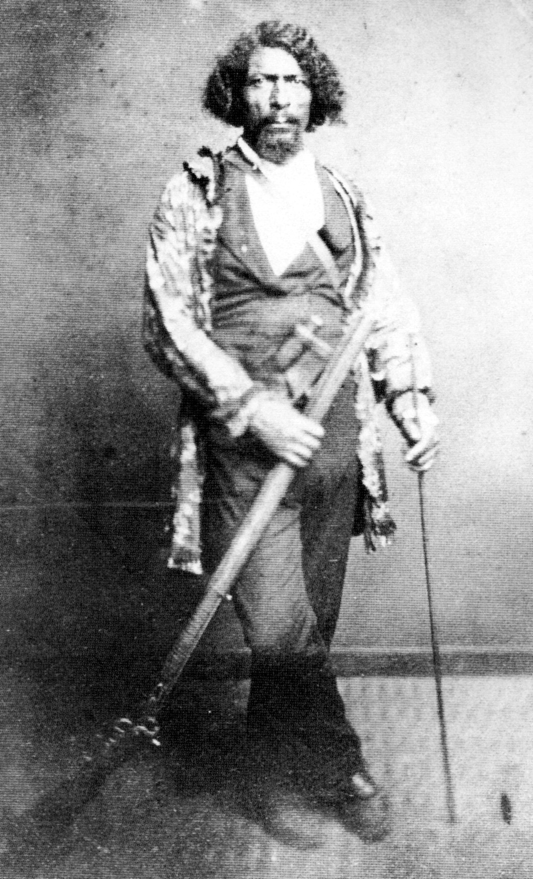 James Beckwourth, early American traper and fur trader of the West